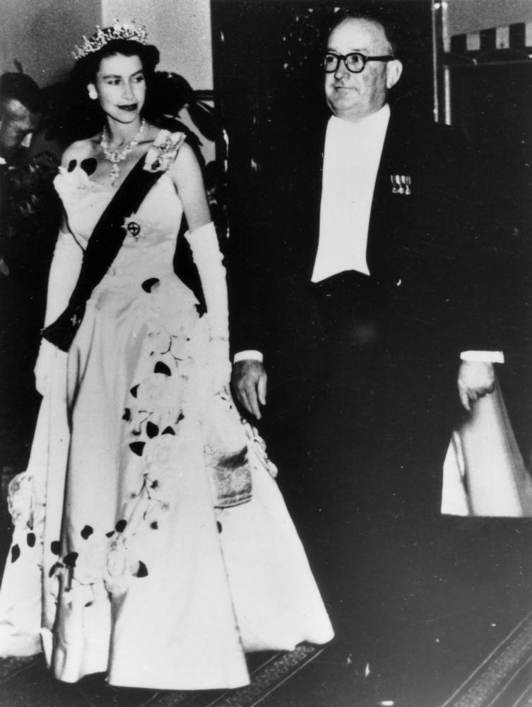 Queen Elizabeth II with the Queensland Premier in March 1954 The Queen with the Premier of Queensland, the Hon. Vincent Clair Gair, at a Parliamentary Reception in Brisbane in March 1954. (Description supplied with photograph.).